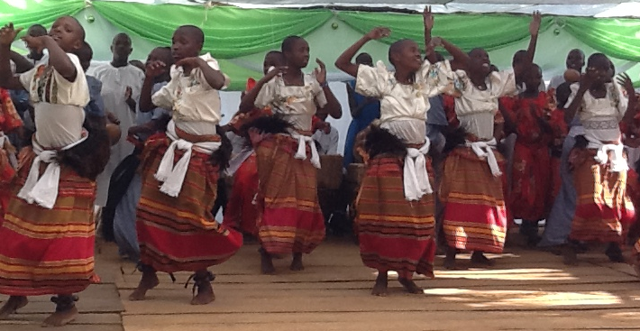 This is a demostration of activity which goes on at the cultural centre, Bukoto